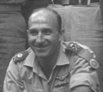 Mordechai Hod, June 1967